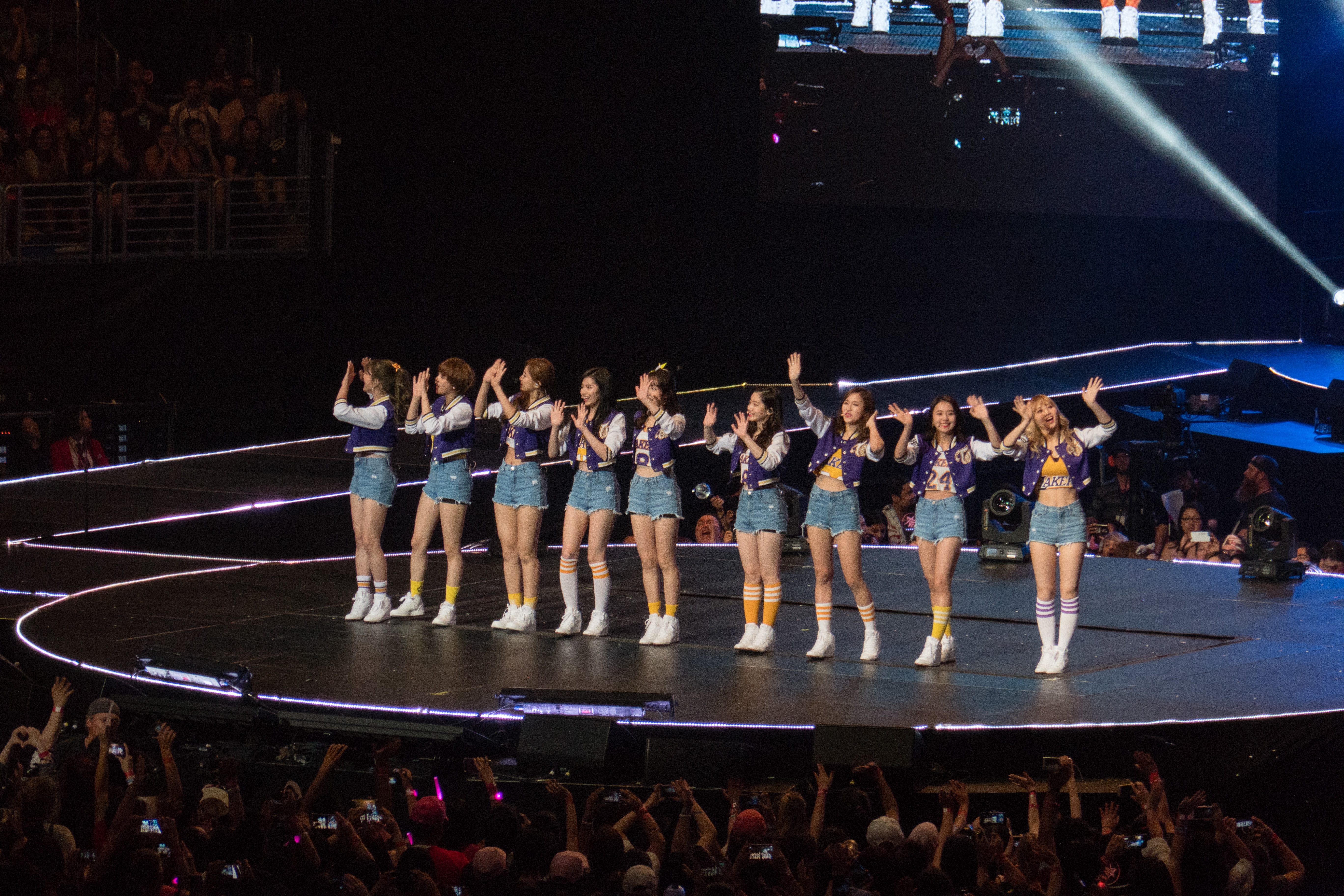 Twice (트와이스) live at KCON16 LA